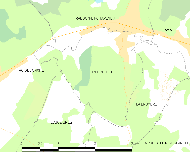 Map of French municipality